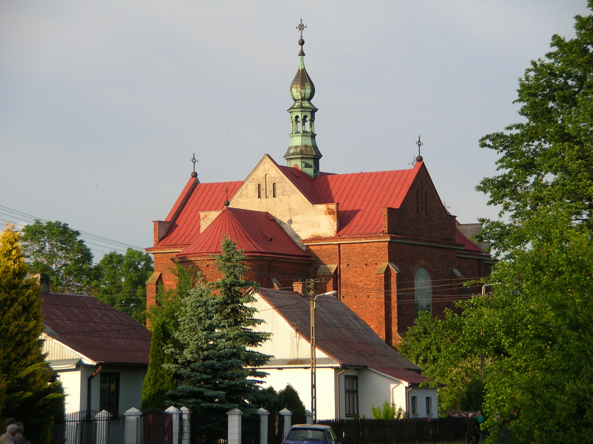 Church in Kuczki